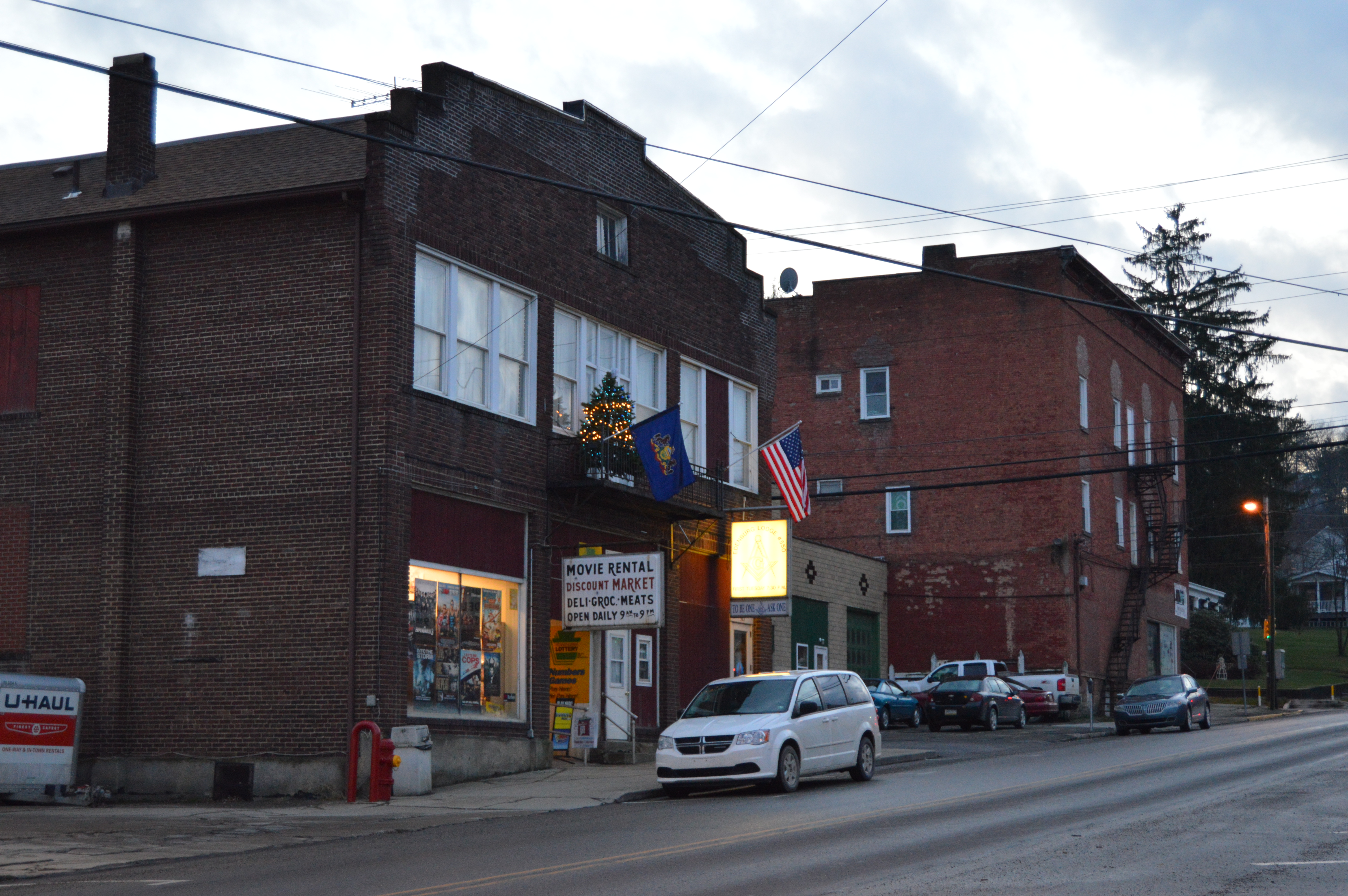 Buildings on the southern side of E. State Street (Pennsylvania Route 208) east of the Main Street intersection in Knox, Pennsylvania, United States.